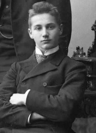 George Wegner Paus, lawyer and director at the Norwegian Employers' Confederation, as a teenager